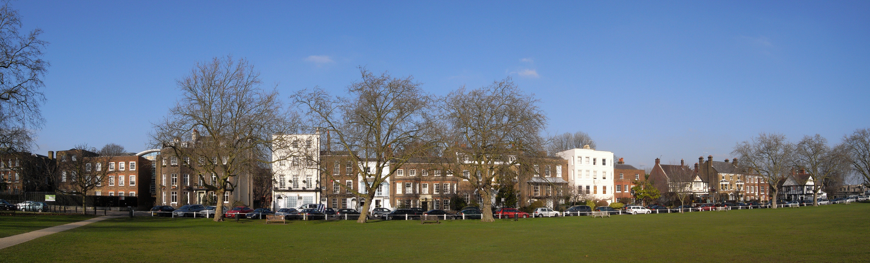 Kew Green, London. Panorama from 3 photos taken with a Ricoh GX100, combined with Hugin.